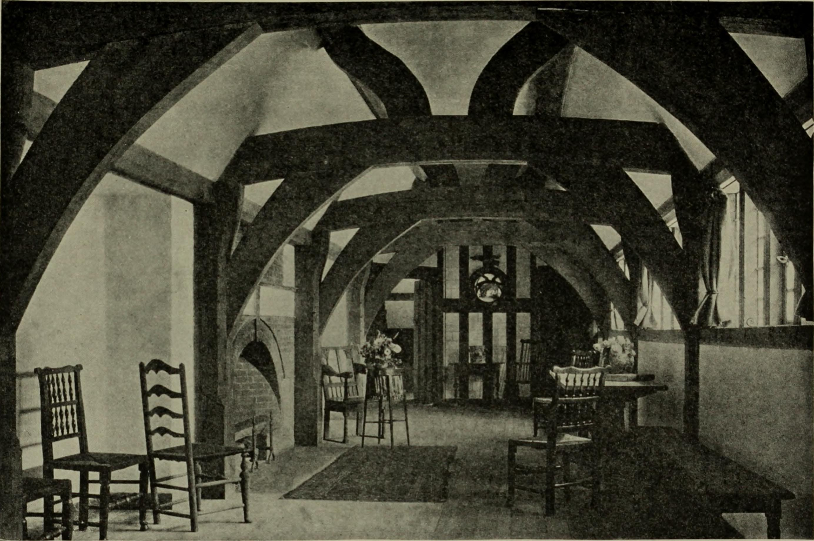 Illustration from "Lutyens houses and gardens" (1921): The Deanery Garden, Sonning, Berkshire.